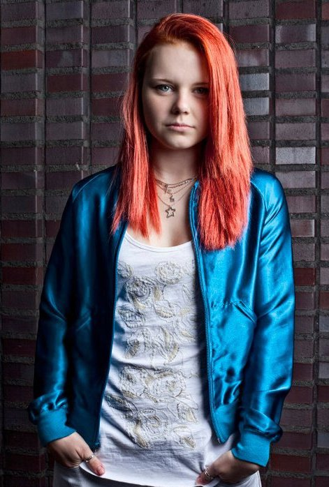 JAJA Vankova